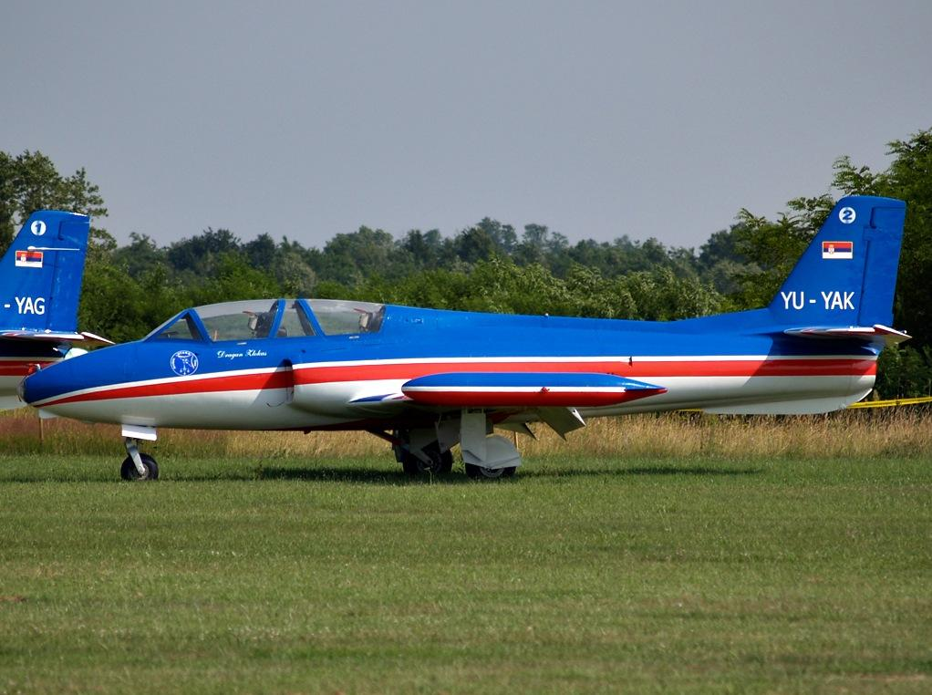 Serbian Soko galeb G-2 at an airshow in SLovenia (Murska Sobota).